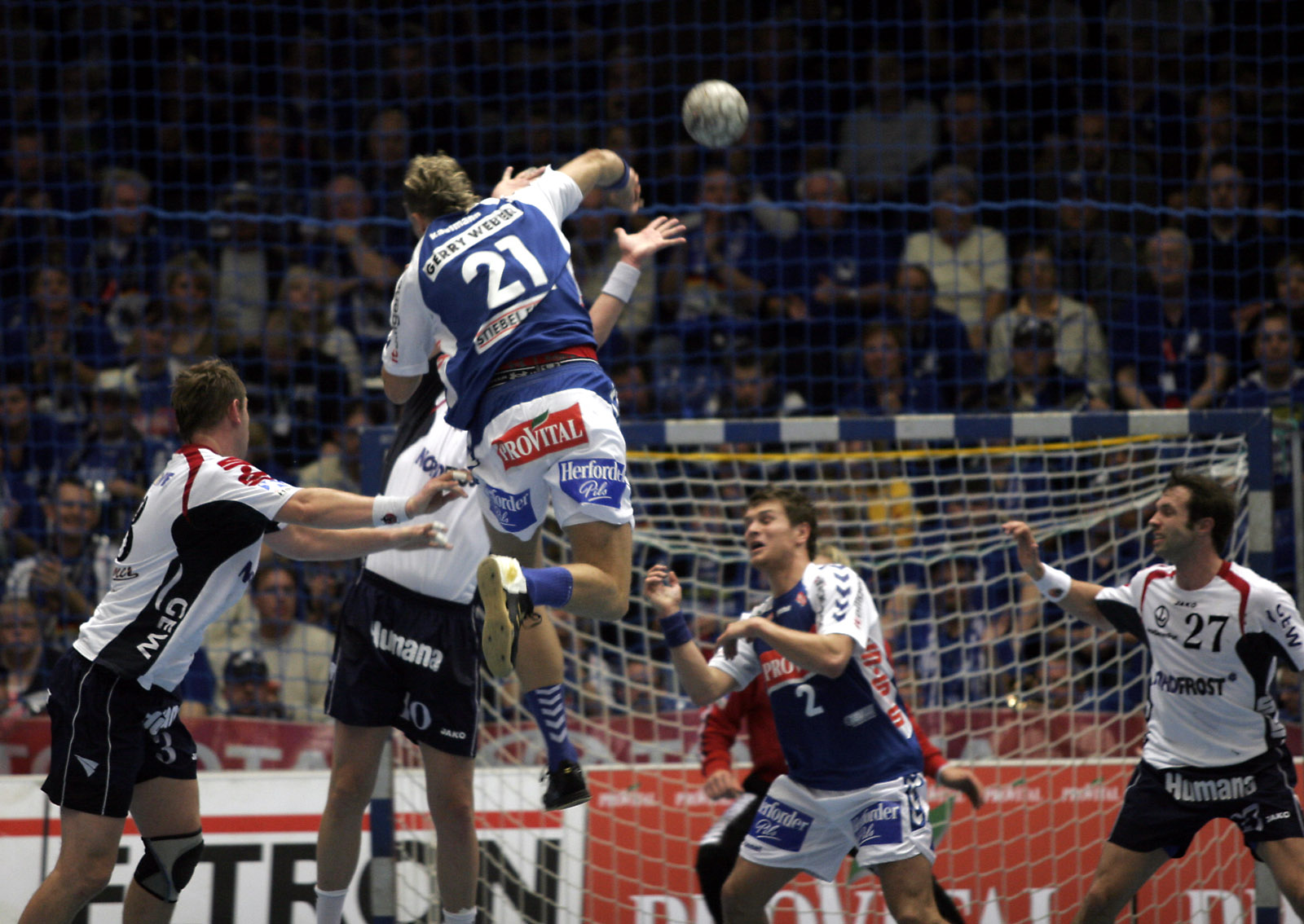 Lars Kaufmann, German handball player from TBV Lemgo, in a bundesliga game vers. Wilhelmshavener HV